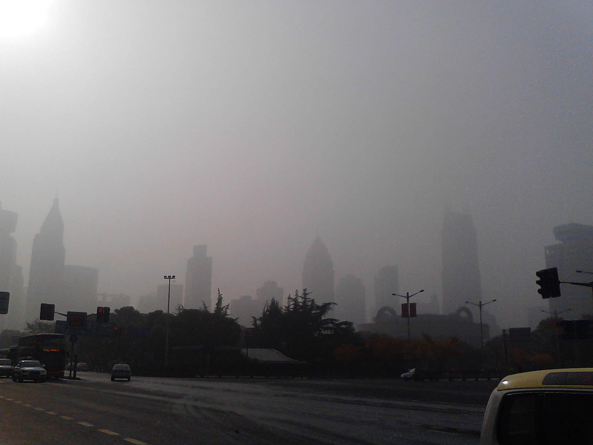 (中文)上海市黄浦区早晨出现的重度霾。 (English)Heavy haze in Huangpu District in Shanghai, China, near the Grand Theatre.